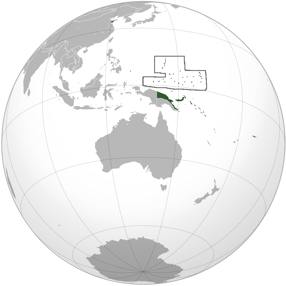 Green: German New GuineaDark gray: Other German possessions